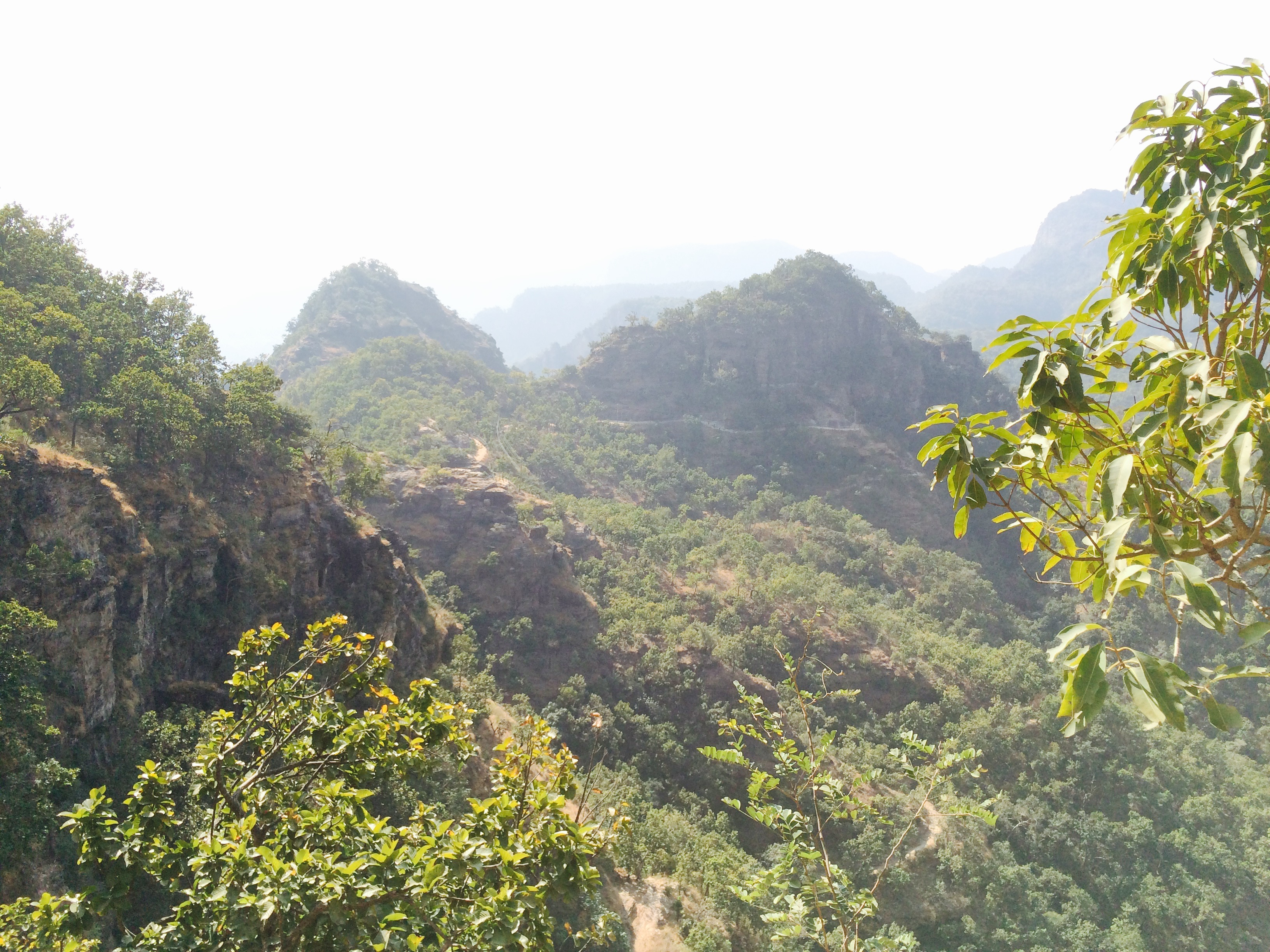 Mountains of pachmarhi